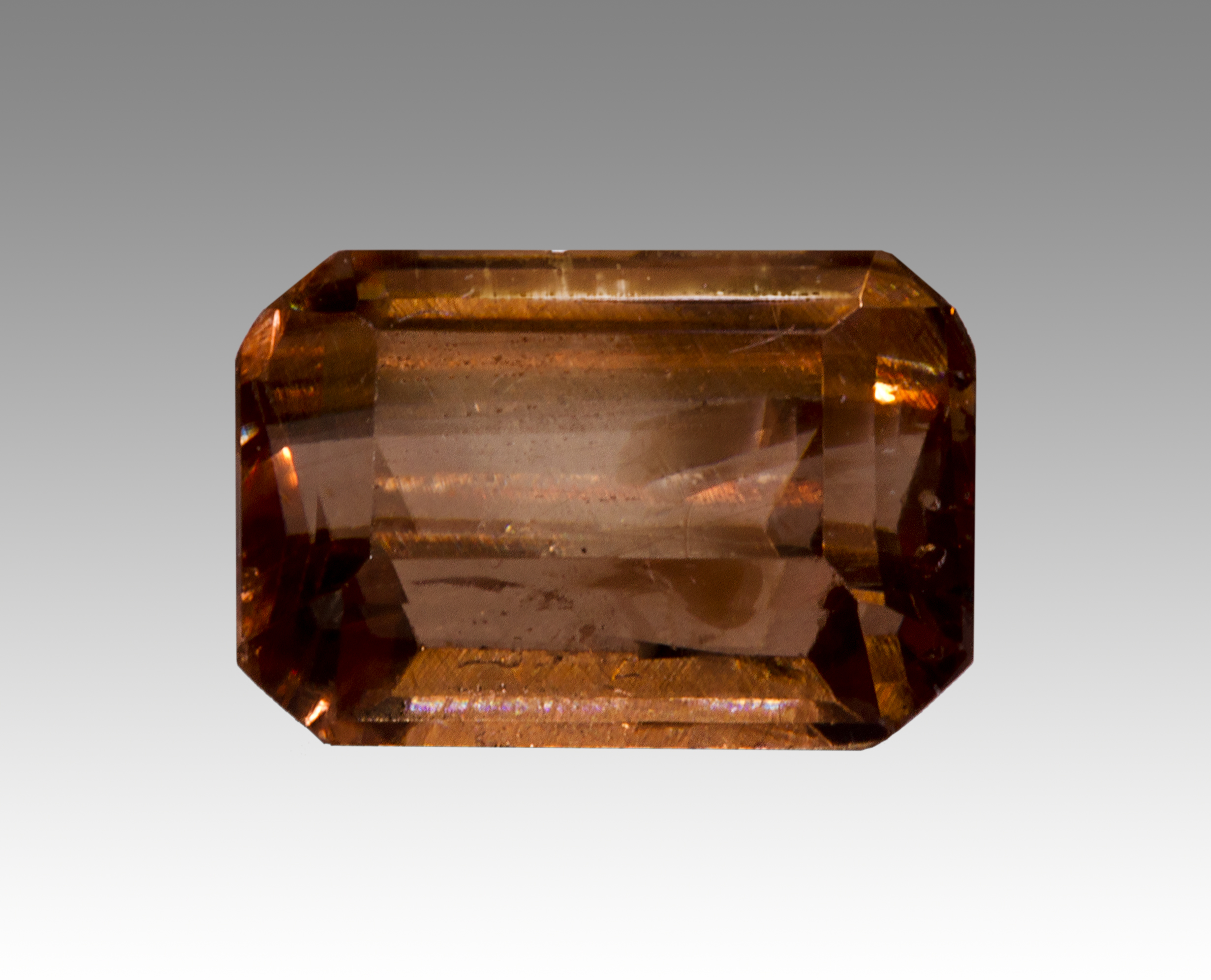 Siderite - Cut Locality : Morro Velho mine, Nova Lima, Minas Gerais, Southeast Region, Brazil Size : 5 x 3.2 mm